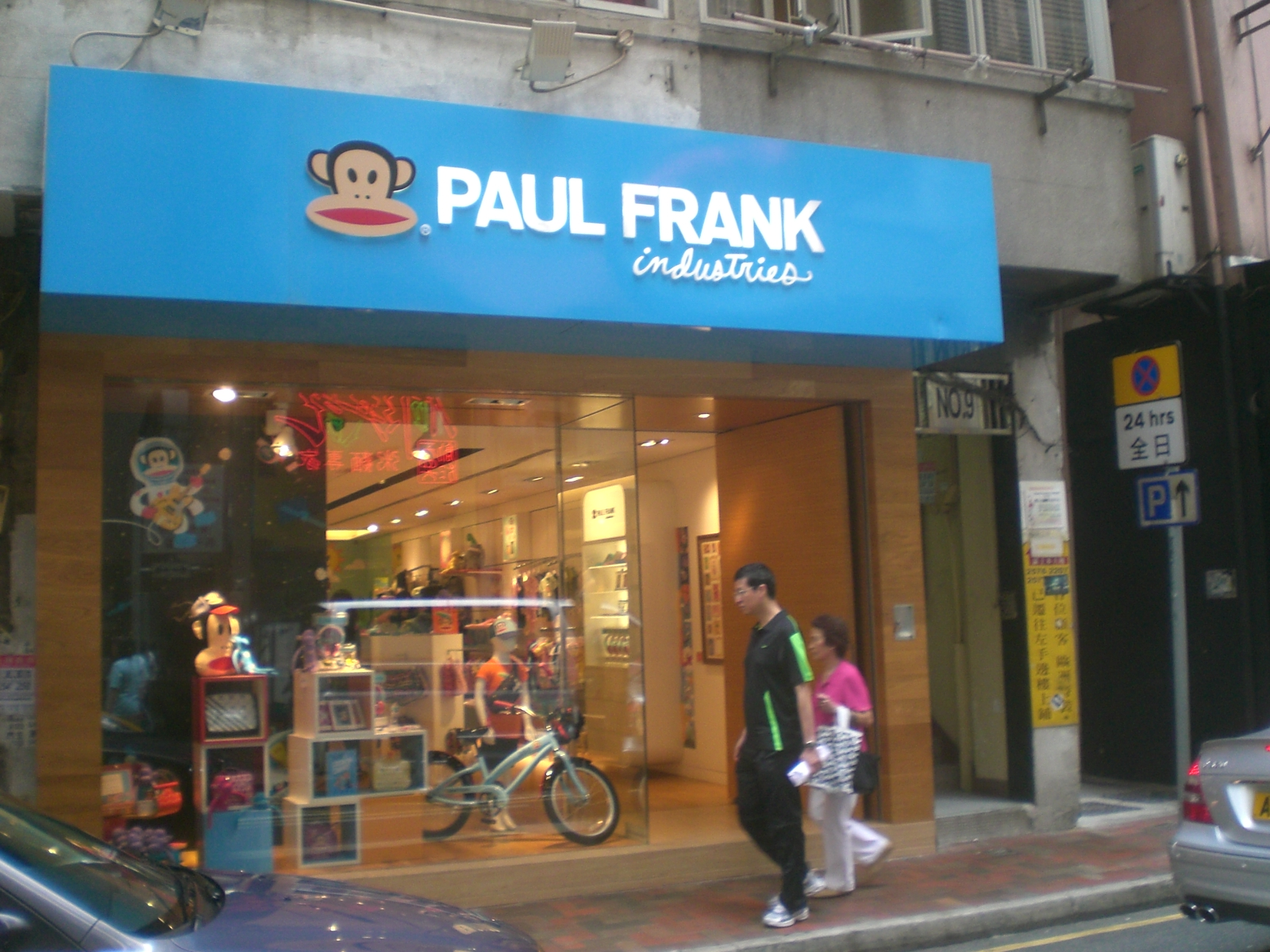 銅鑼灣勿地臣街 近利舞臺廣場後門 Paul Frank Industries, Matheson Street, Causeway Bay, Hong Kong